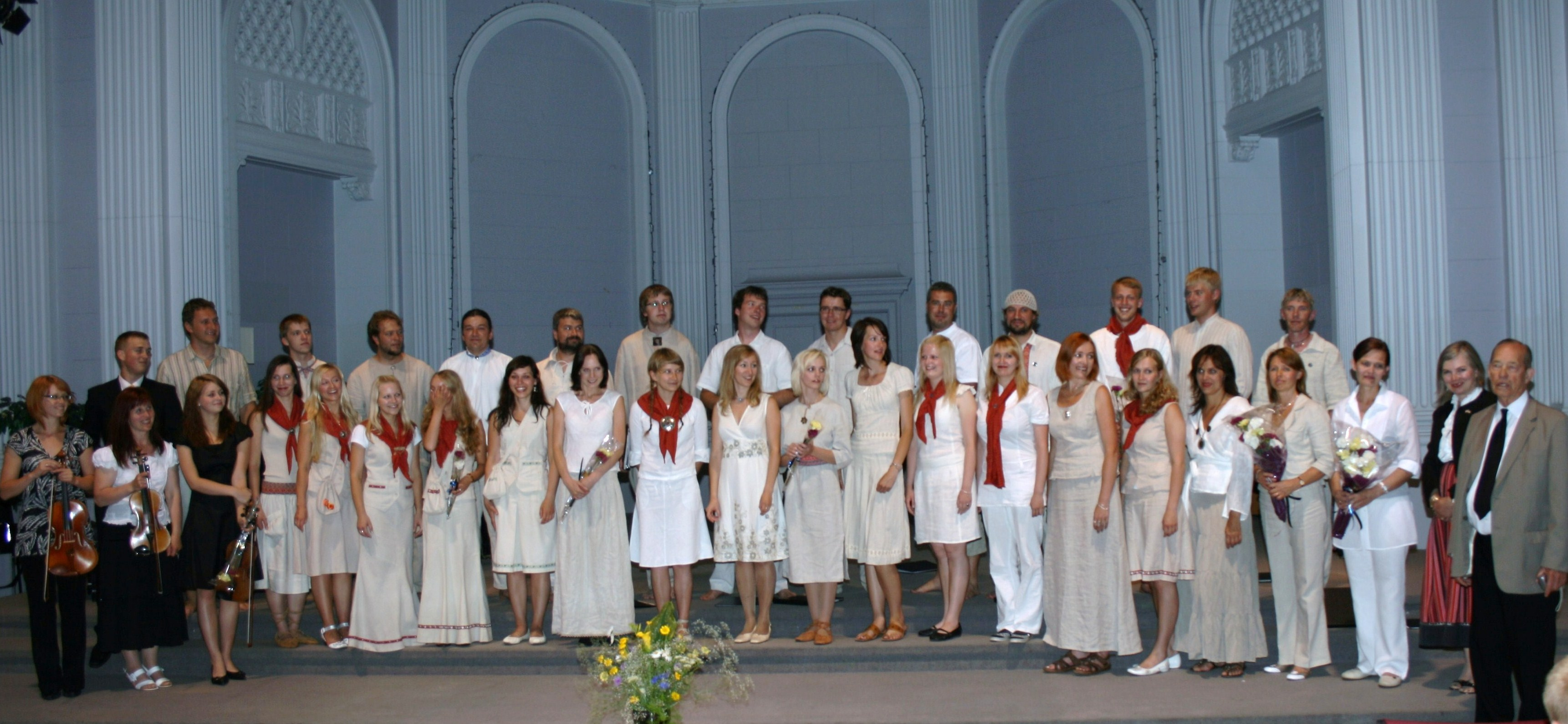 E Stuudio chamber choir at University of Ottawa